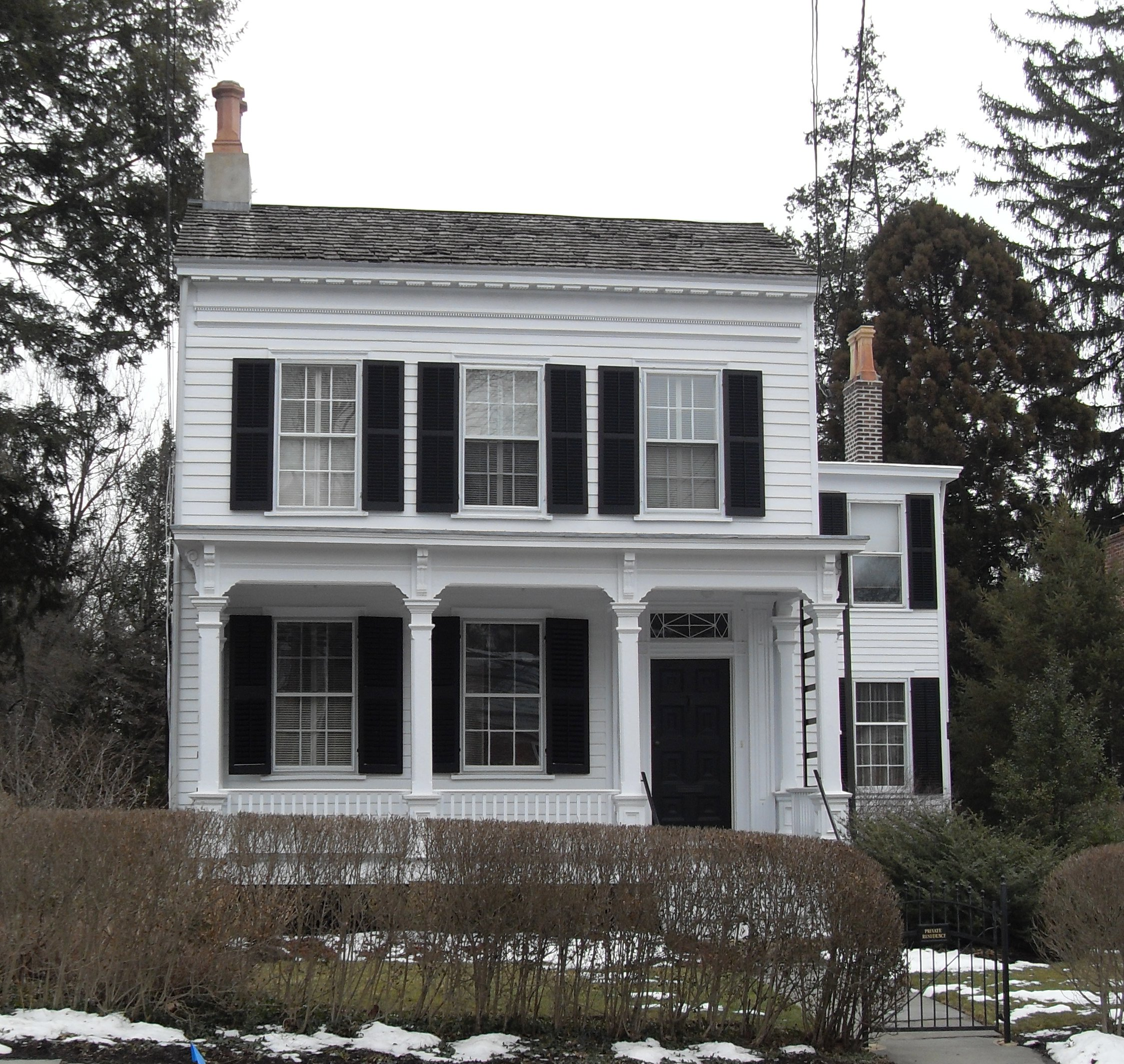 Einstein's house in Princeton - 112 Mercer Street, Princeton, New Jersey, formerly the home of Albert Einstein. In August 1935 Einstein bought a single family house at 112 Mercer Street in Princeton, near the institute